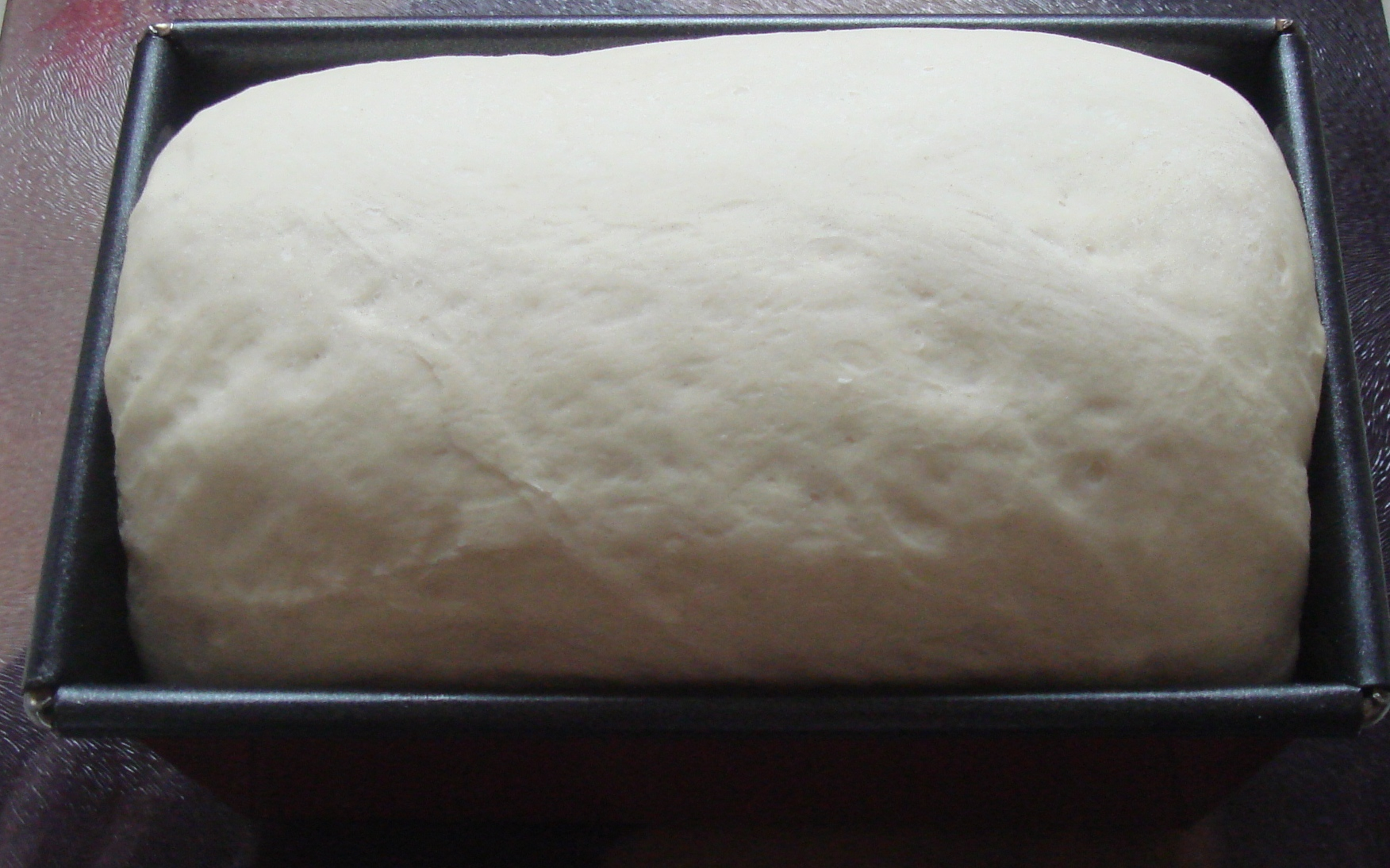 Bread dough which has risen and is ready to go in the oven